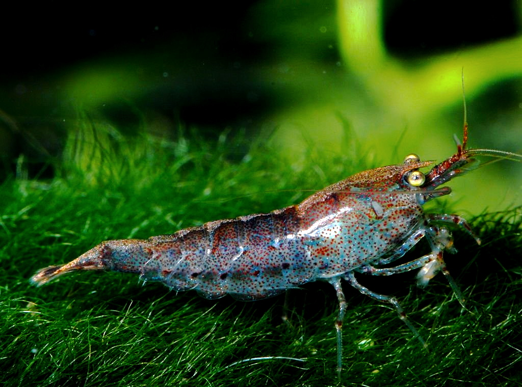 Neocaridina palmata is a marmorated shrimp. It is a freshwater shrimp.